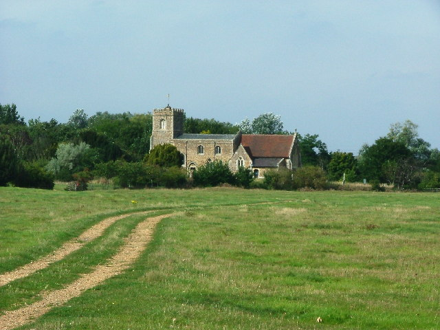 View north across a field at Little Barford, Bedfordshire, to St Denys' parish church